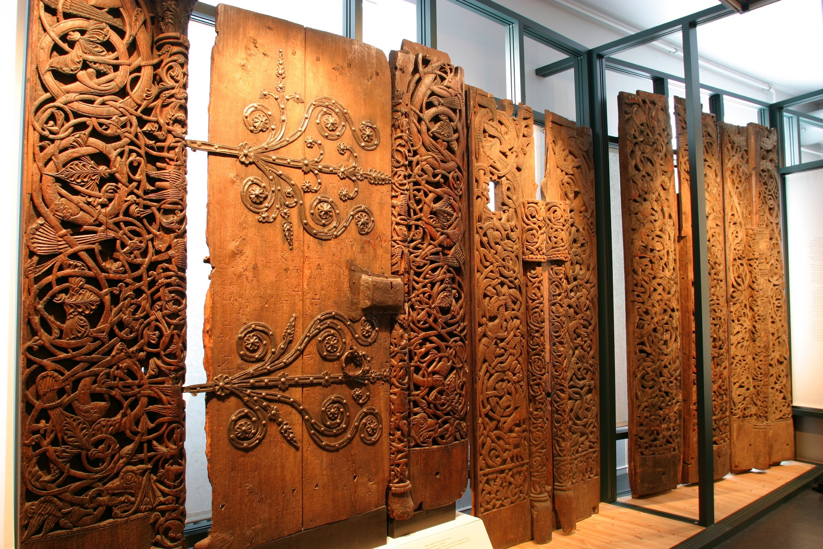 MOTIV: Utskorne veggtiler PERIODE: 1200-talet FUNNSTAD: Tønjum stavkyrkje KOMMUNE: Lærdal ENGLISH: Carved wooden wall tiles from 13th century A.D., from Toenjum stave church, Laerdal, Western Norway. Exhibited at Bergen museum.